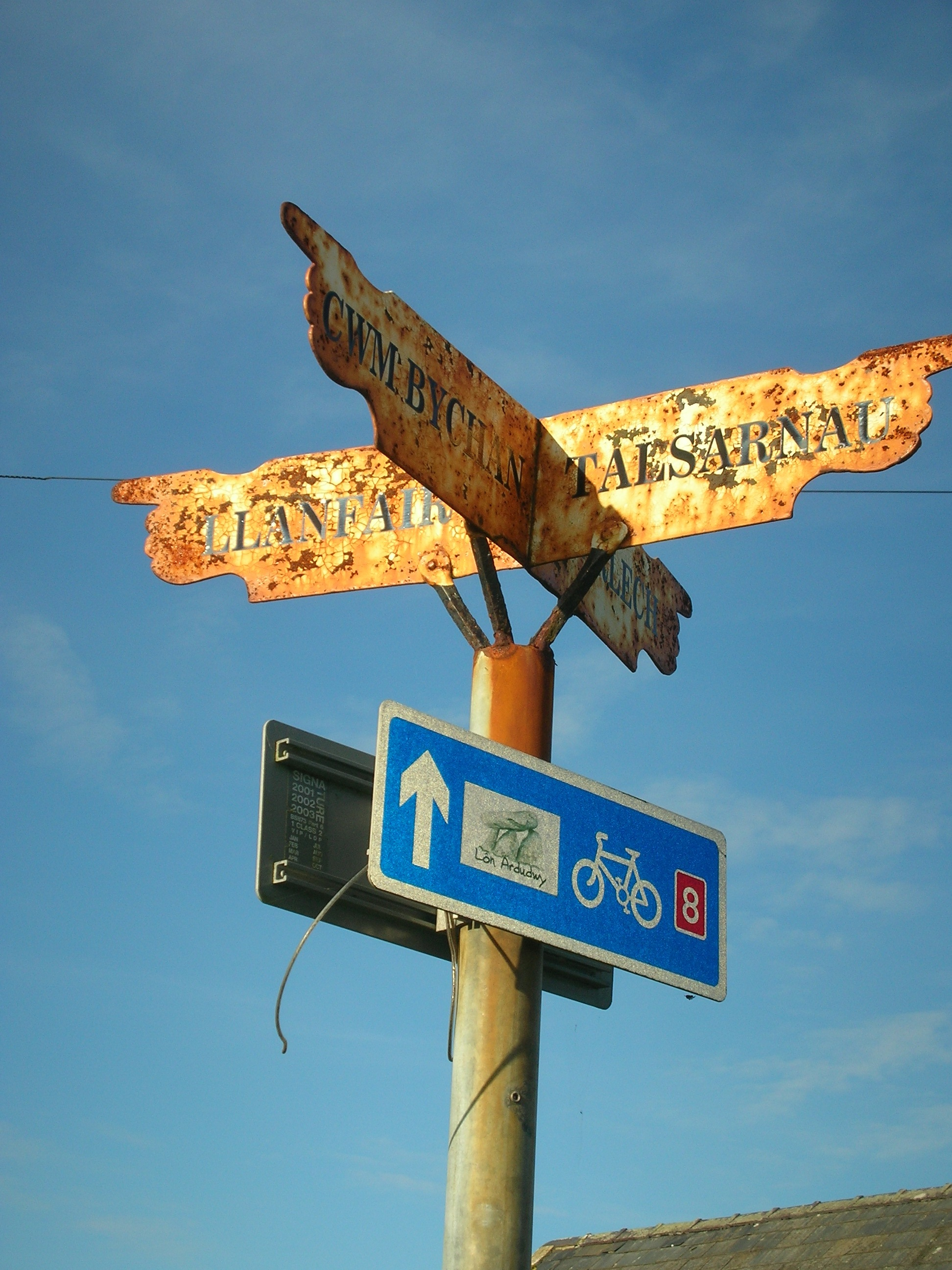 Sign for National Cycle Network Route 8 near Harlech in North Wales. Fingerpost now replaced by a modern version. Photographed by me 24 October 2006. Oosoom